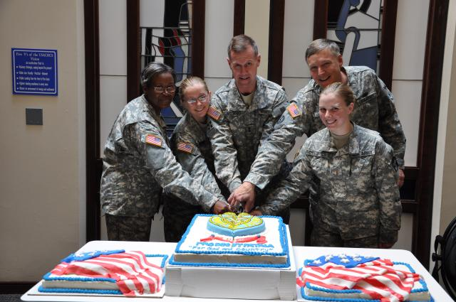 The Army Chaplain Center and School, the Army contingent of the Armed Forces Chaplaincy Center at Ft Jackson, Columbia, SC, celebrates the 235th anniversary of the Army's Chaplain Corps with a cake cutting during a ceremony and luncheon. Pictured: USACHCS Command Sgt. Maj. Marylena McCrimmon, Pvt. Amber Sherman, Maj. Gen. James Milano, post commander, Chaplain (Col.) David Smartt, commandant, and 2nd Lt. Stephanie Christoffels